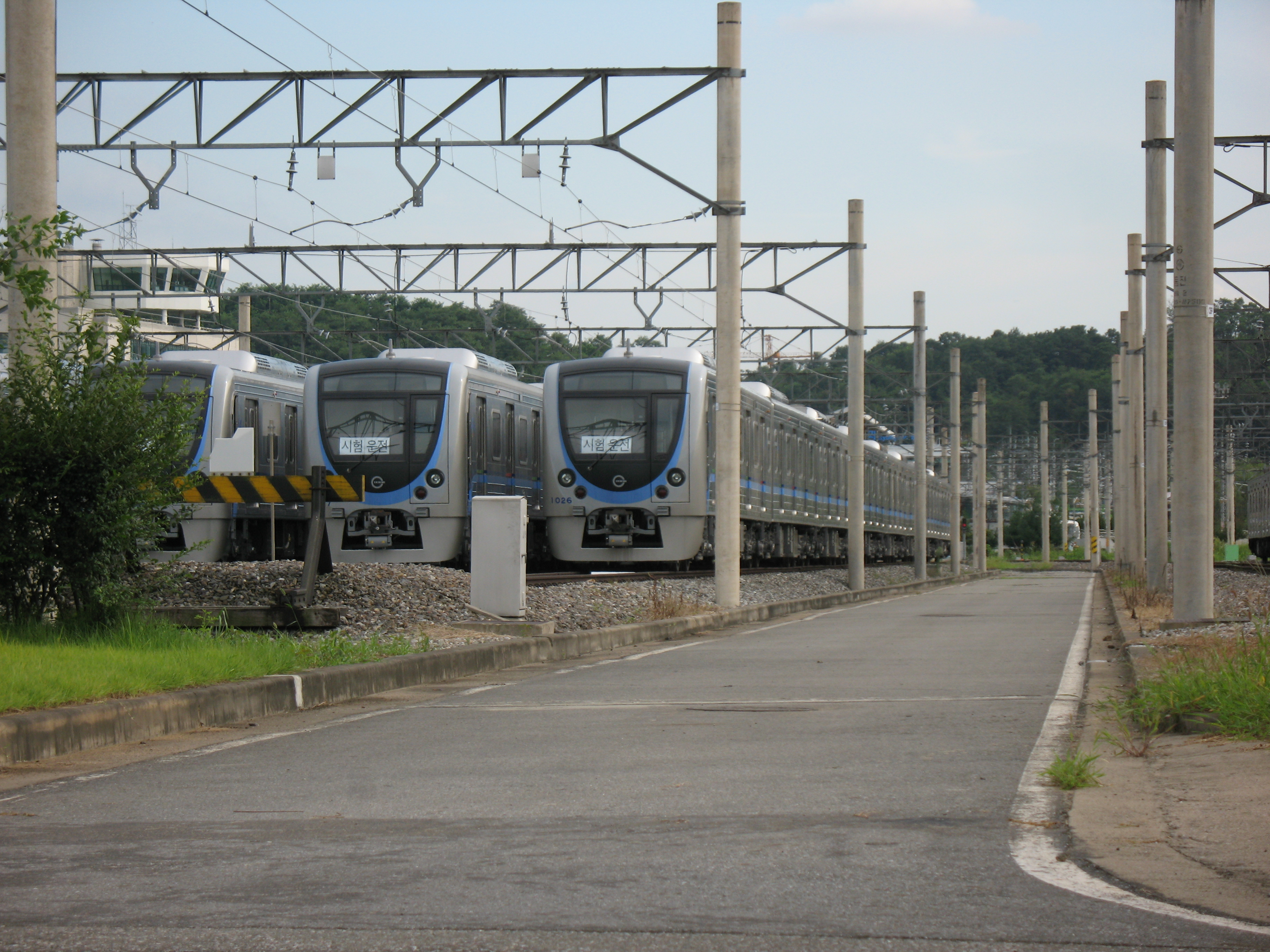 A trainset of Incheon Subway Line 1